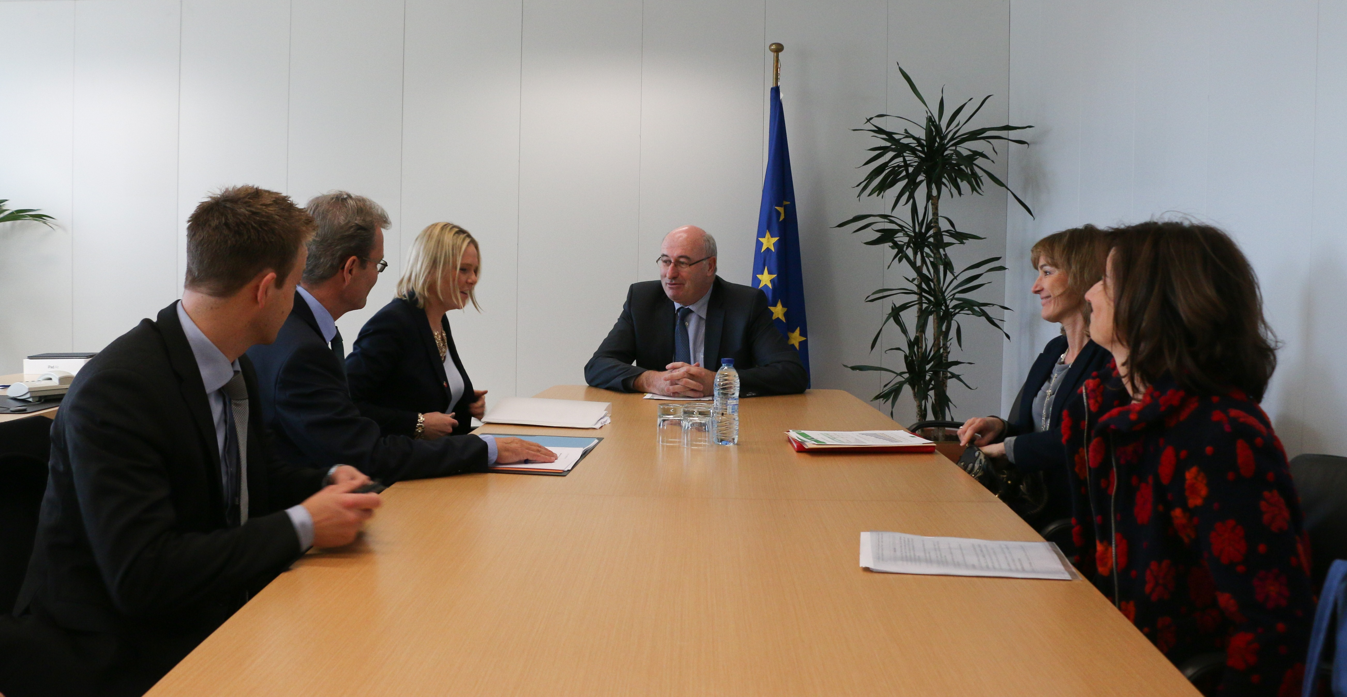 Norway's Minister of Agriculture and Food, Sylvi Listhaug, during a meeting with Phil Hogan, the European Commissioner for Agriculture and Rural Development.